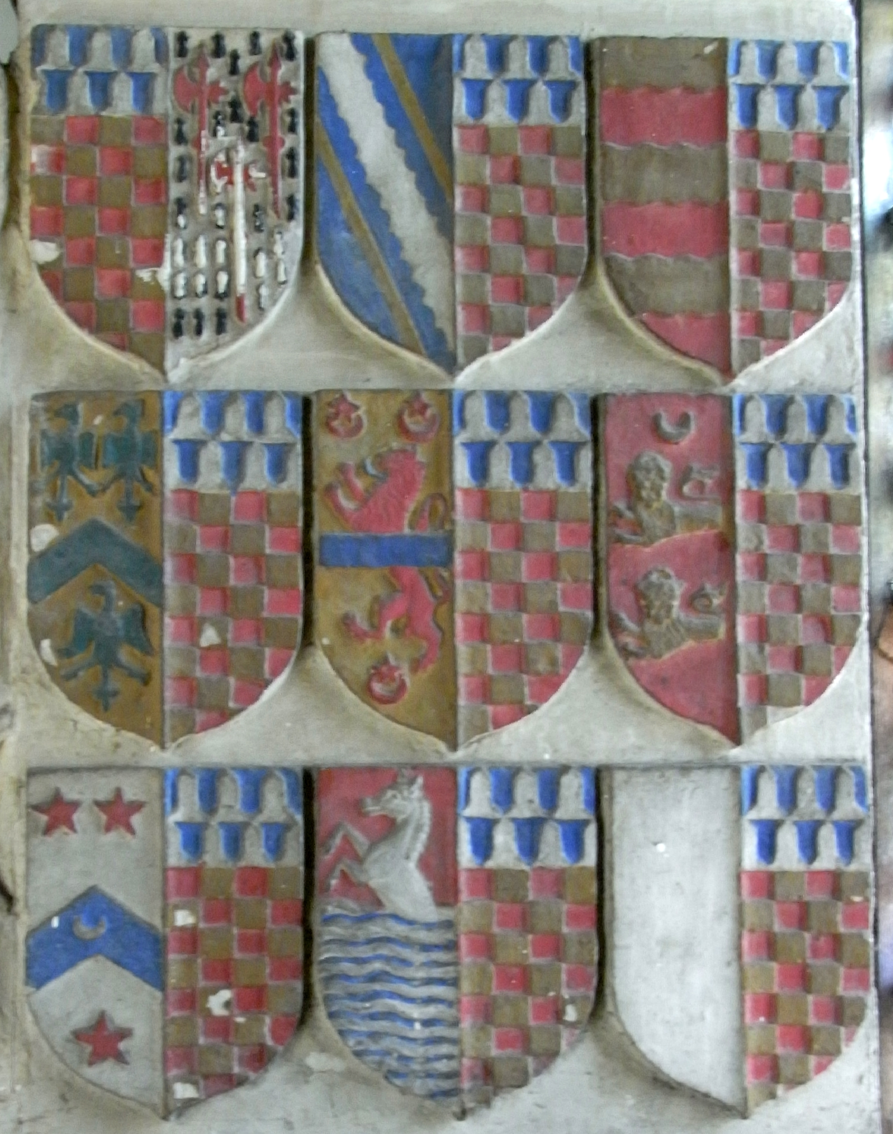 Heraldic panel from monument to Sir John Chichester (d.1569) in Pilton Church, Devon. The shields show the marriage alliances made by his children.